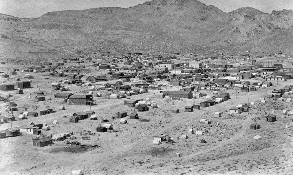 The town of Rhyolite, Nevada, U.S.A., as it appeared circa 1905-1908. A general view of the town & its surroundings, including background hills/mountains (a part of the "Bullfrog Hills"). This photo was taken sometime after ( likely well after ) the beginning of the "boom" period in Rhyolite, but before January, 1908. Note the absence of the Cook Bank Building; the future site of the C.B.B. shows possible signs of construction. For reference, compare with file:Rhyolite1908Jansmall.jpg.